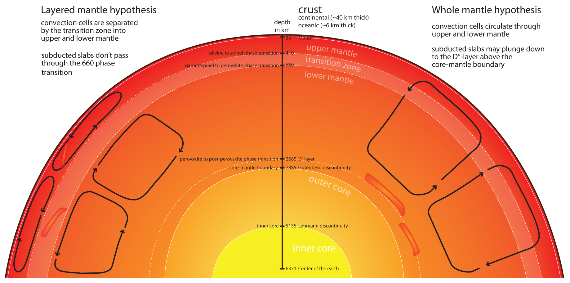 This diagram depicts a cartoon view of the earth with two end-member models for mantle dynamics on either side, with the main points of each model included in the image. The likely scenario is that mantle dynamics is some combination of these two models.